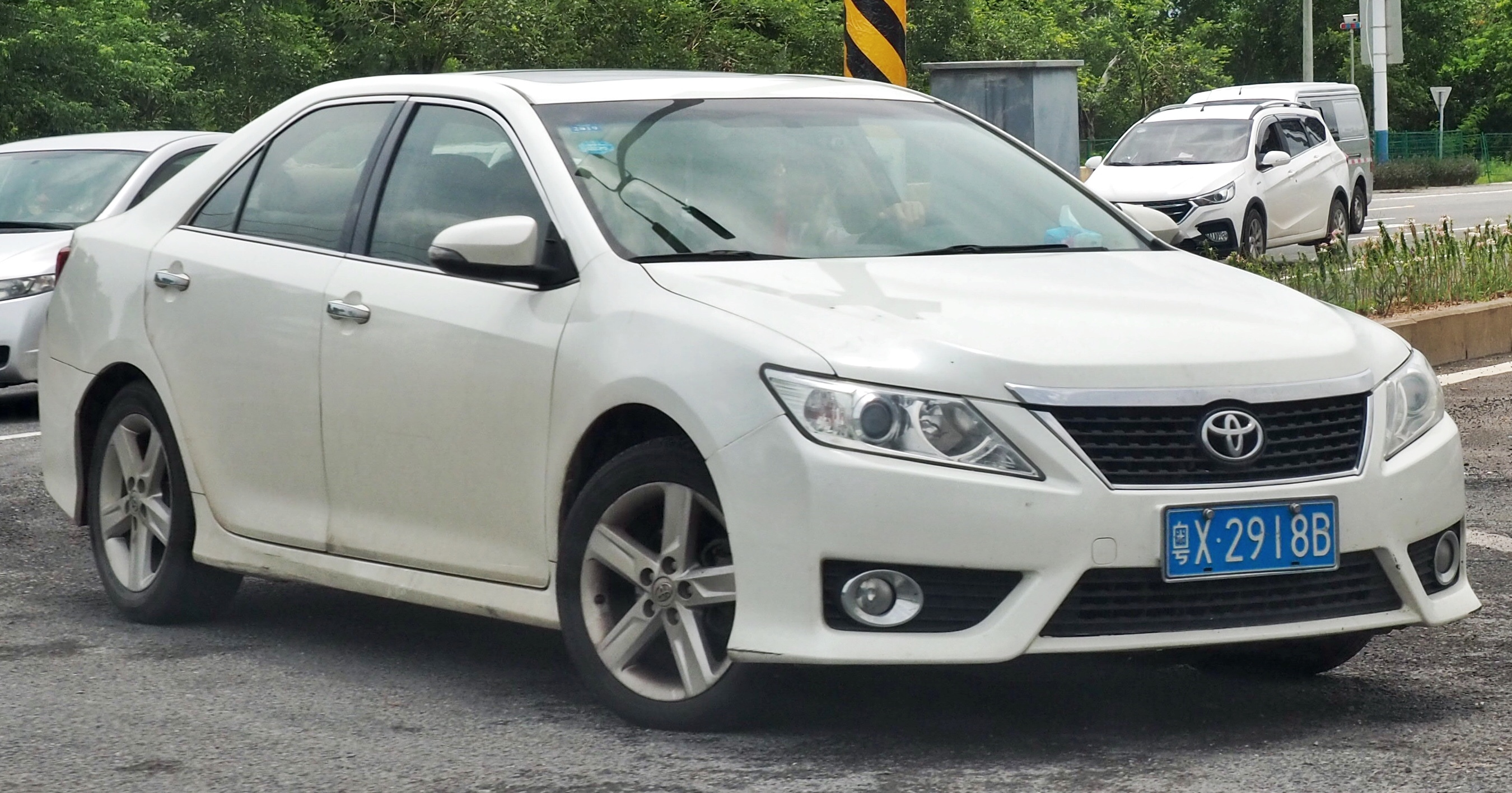 A 2011 GAC-Toyota Camry photographed in Zhuhai, Guangdong province, China. 中文（中国大陆）: 一辆2011年的广汽丰田凯美瑞，拍摄于中国广东省珠海市。